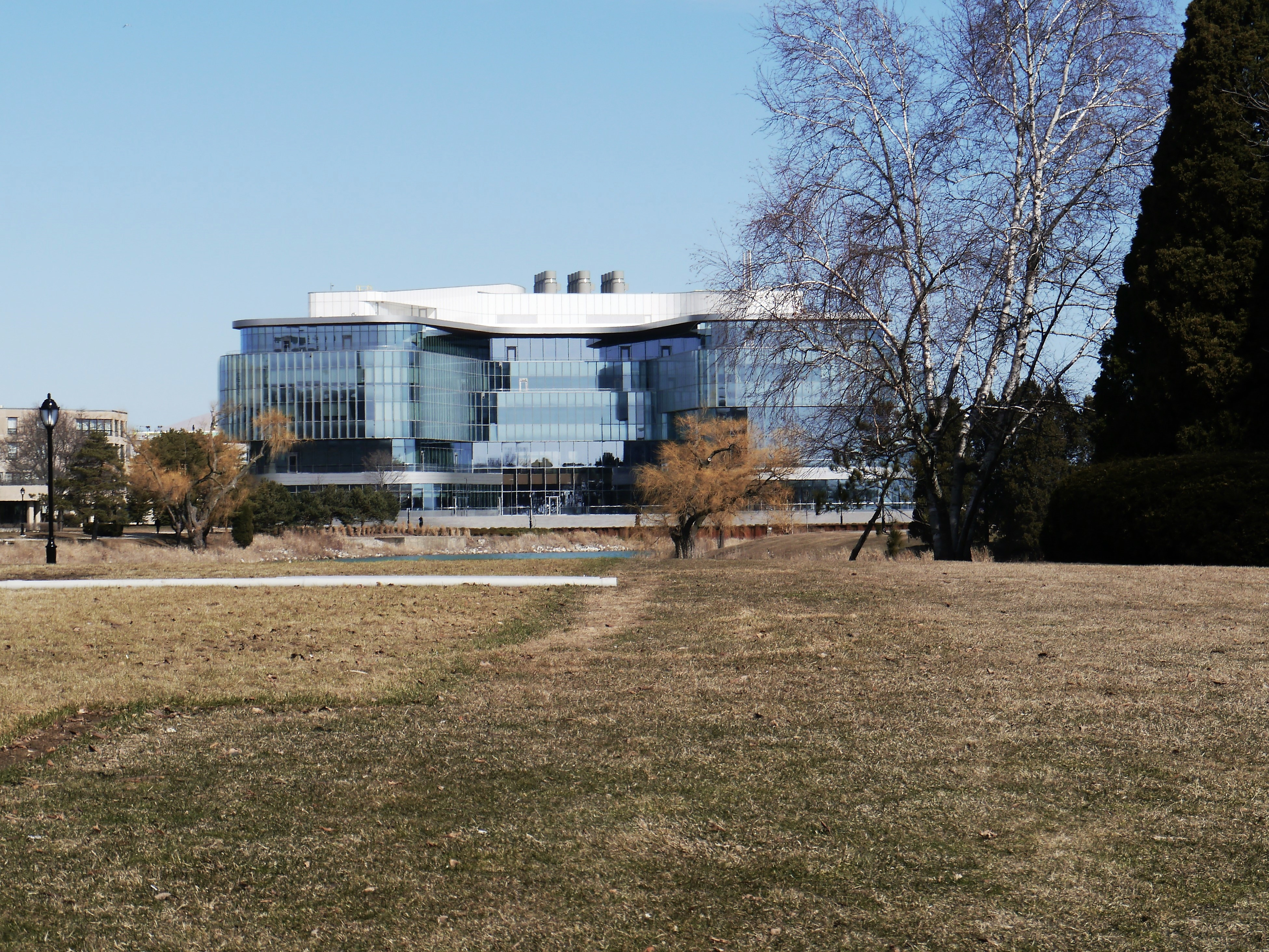 Kellogg School of Management Global Hub - March 2018